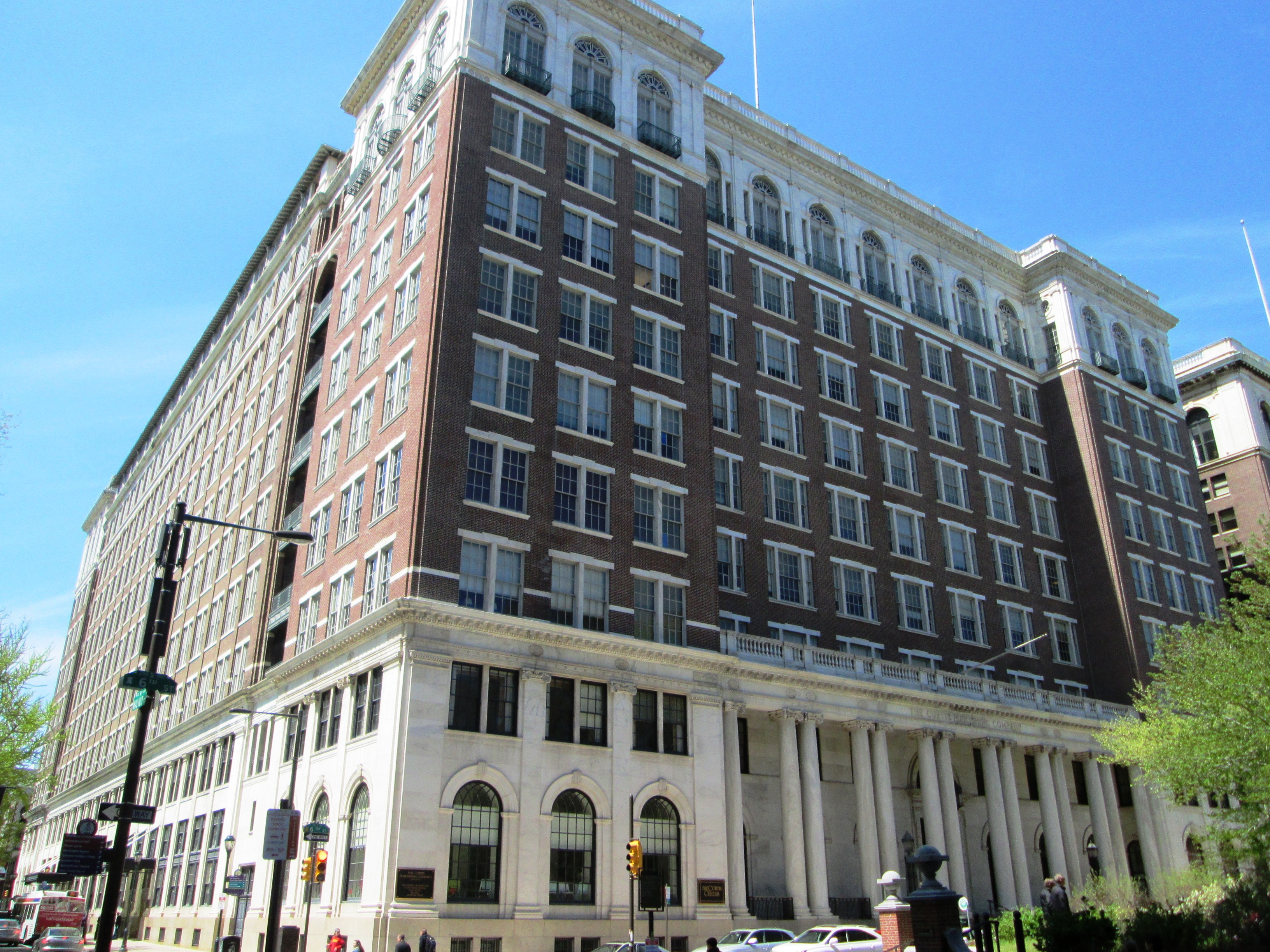 The Curtis Publishing Company Building, now known as the Curtis Center, at 699 Walnut Street between Sansom Street, S. 6th and S. 7th Street in the Washington Square West neighborhood of Philadelphia was built in 1910 and was designed by Edgar Seeler in the Beaux Arts style as the headquarters for the company that published the Saturday Evening Post, Ladies Home Journal and many other magazines. The interior of the building features a terraced waterfall and fountain, an atrium with faux-Egyptian palm trees, and the 15'x29' glass-mosaic The Dream Garden (1916) designed by Maxwell Parrish and made by Louis Tiffany and Tiffany Studios, which is owned by the Pennsylvania Academy of Fine Arts. The building was renovated in 1990 by Oldham and Seltz and John Milner Associates. (Sources: Philadelphia Architecture: A Guide to the City and "The Curtis Center" and "Dream Garden" on )